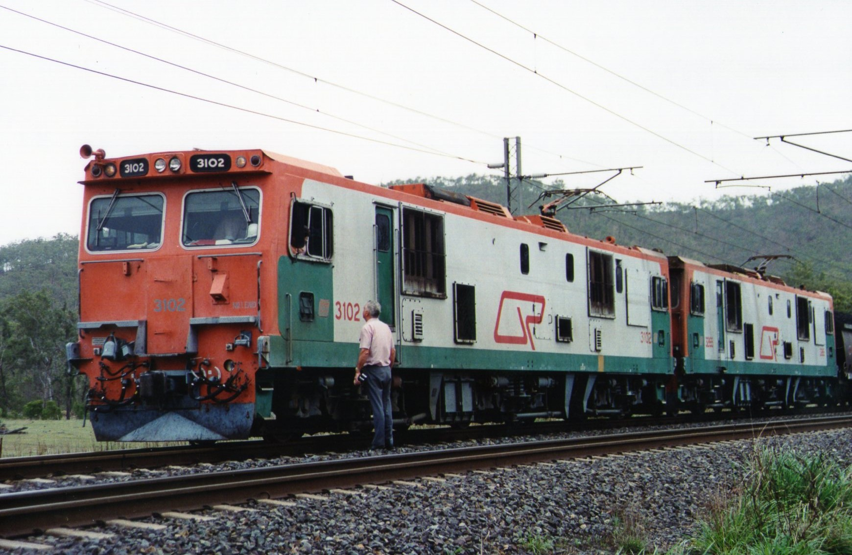 QR electric locos 3102 & 3255 on the Goonyella line ~1991